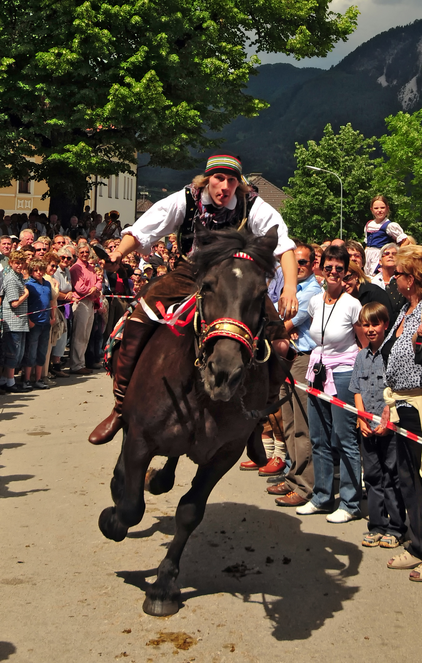 The “Kufenstechen” is an event that takes place in Feistritz an der Gail in Carinthia, Republic of Austria during the annual Kermesse on Whit Monday. The task of young unmarried men, riding on bareback Noriker horses, is to smash a wooden barrel with an iron club. The men have to ride past several times before the barrel is destroyed. Finally, when it is broken, the winner receives a wreath of flowers which he puts on his wrist. Directly afterwards the traditional dance under the lime tree can begin. The winner of the „Kufenstechen“ begins the dance and the other unmarried couples, wearing the traditional Gailtaler folk costumes, join them. The dance is accompanied by very old traditional songs.